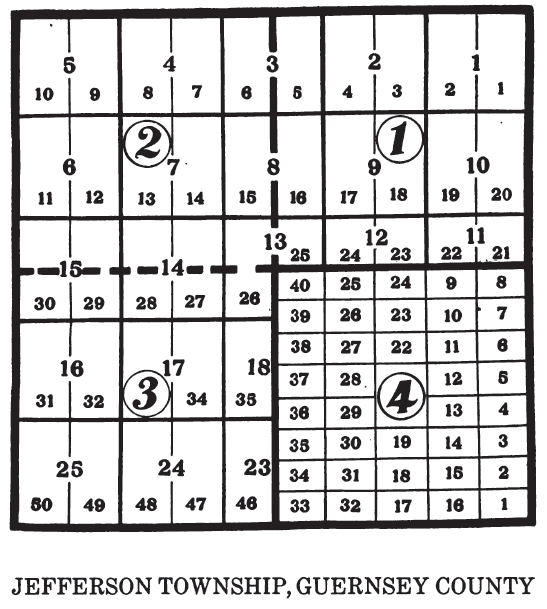 how townships were subdivided in the United States Military District in Ohio